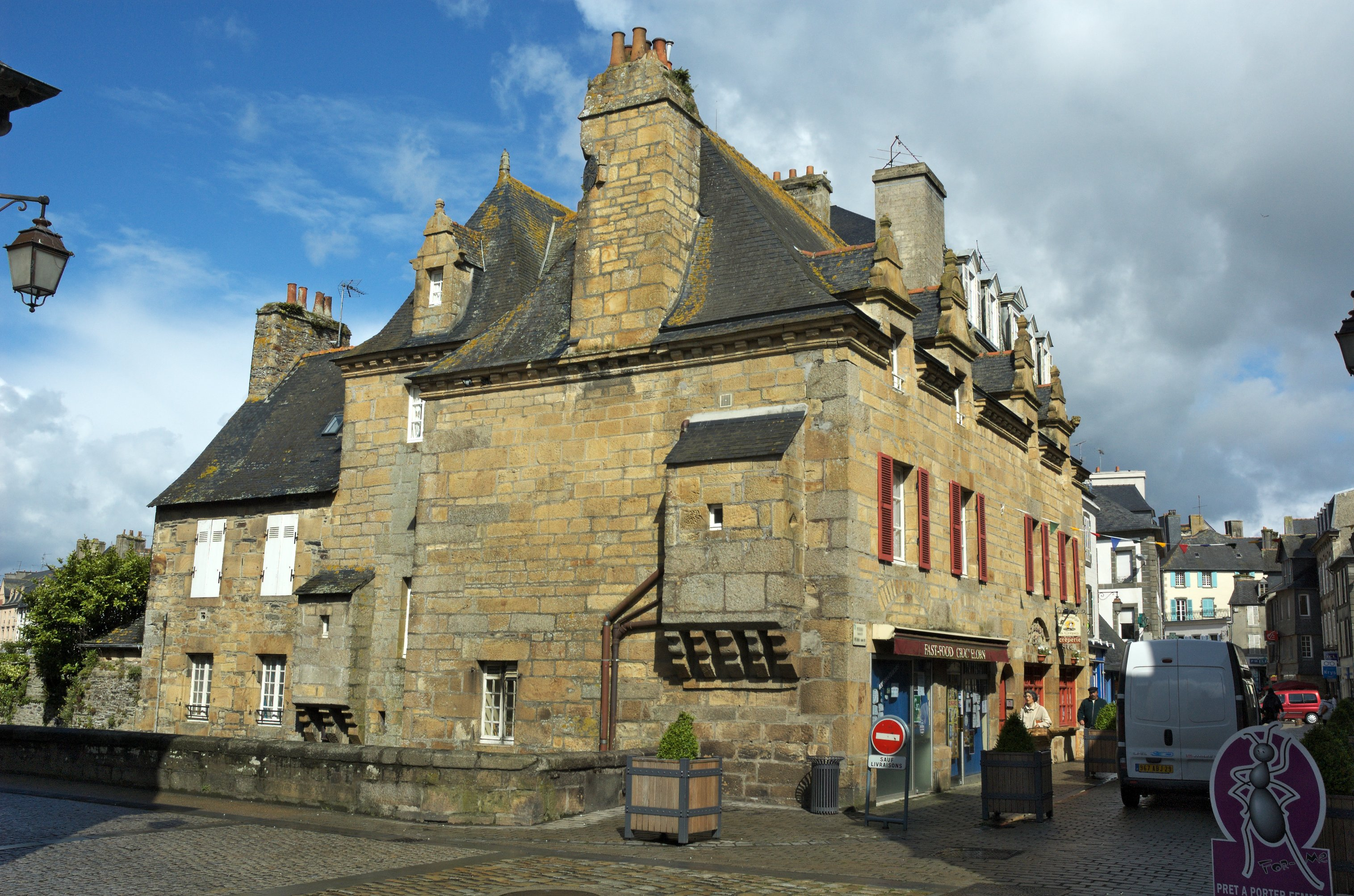 Maison Gillart/Gillard, one of the houses on the Pont de Rohan. Landerneau, Finistère, Bretagne, France.